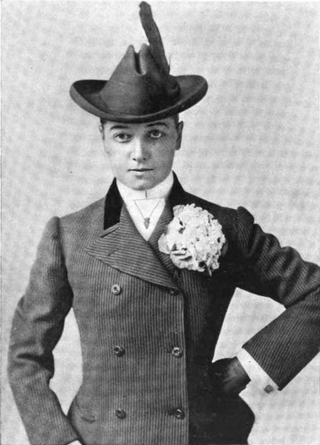 Johnstone Bennett, from a 1901 publication.